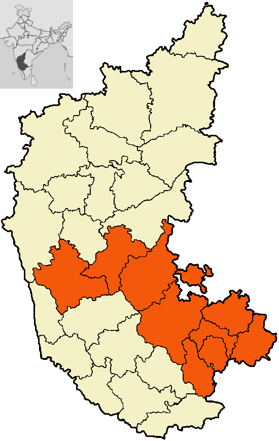 Locator map of Bangalore division, Karnataka, India